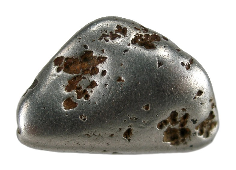 Platinum Locality: Australia Size: thumbnail, 1.5 x 1.1 x 0.5 cm Platinum This is a lustrous, waterworn, metallic gray, platinum nugget. It is obviously from an alluvial deposit, and is a very attractive nugget with good heft for the size (7 grams). Platinum is over $1000 per ounce so this is worth $250 or so just in melting weight. ex. Cranbrook Museum with label